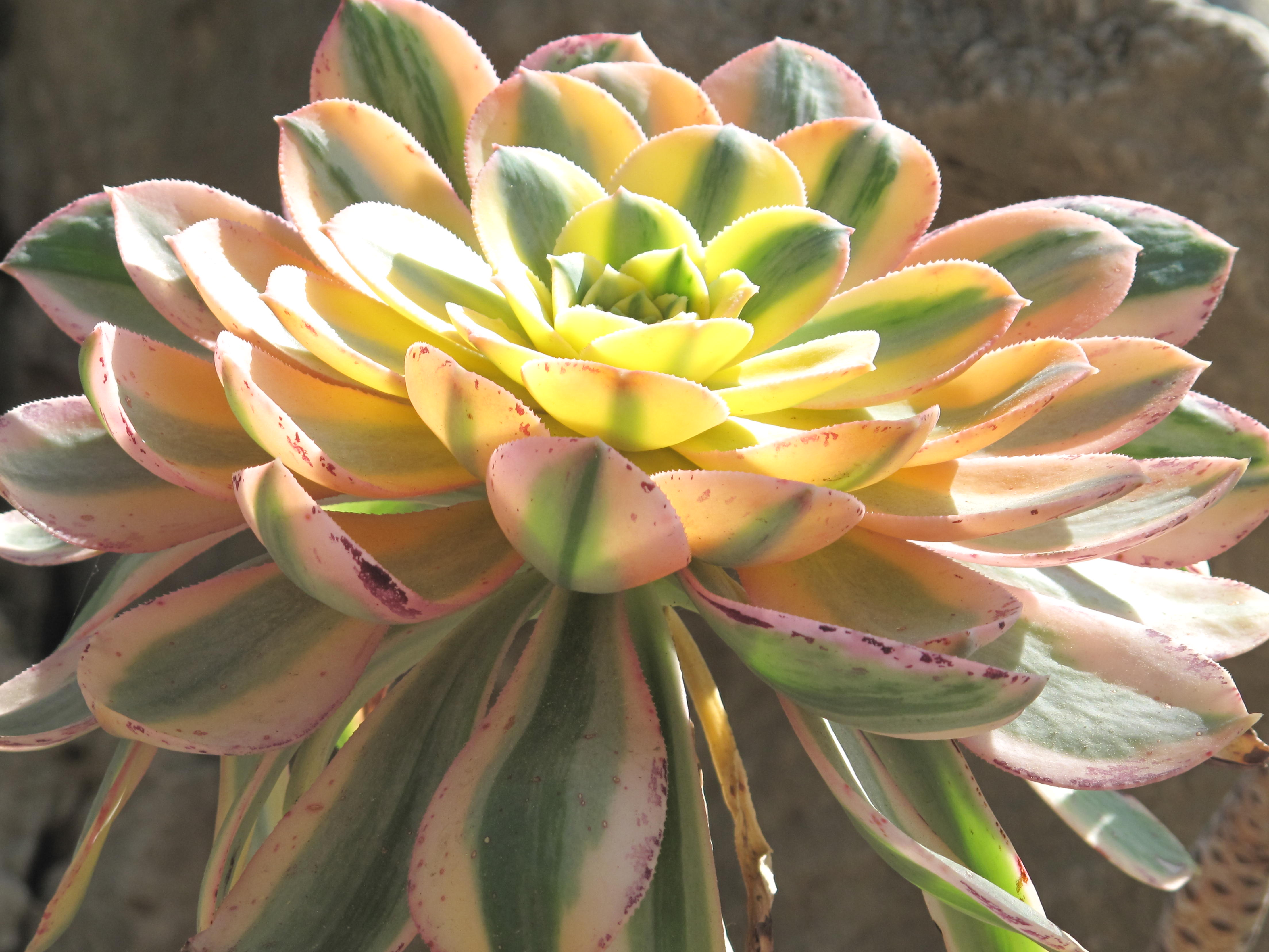 Aeonium arboreum albovariegatum in the exotic garden of Monaco